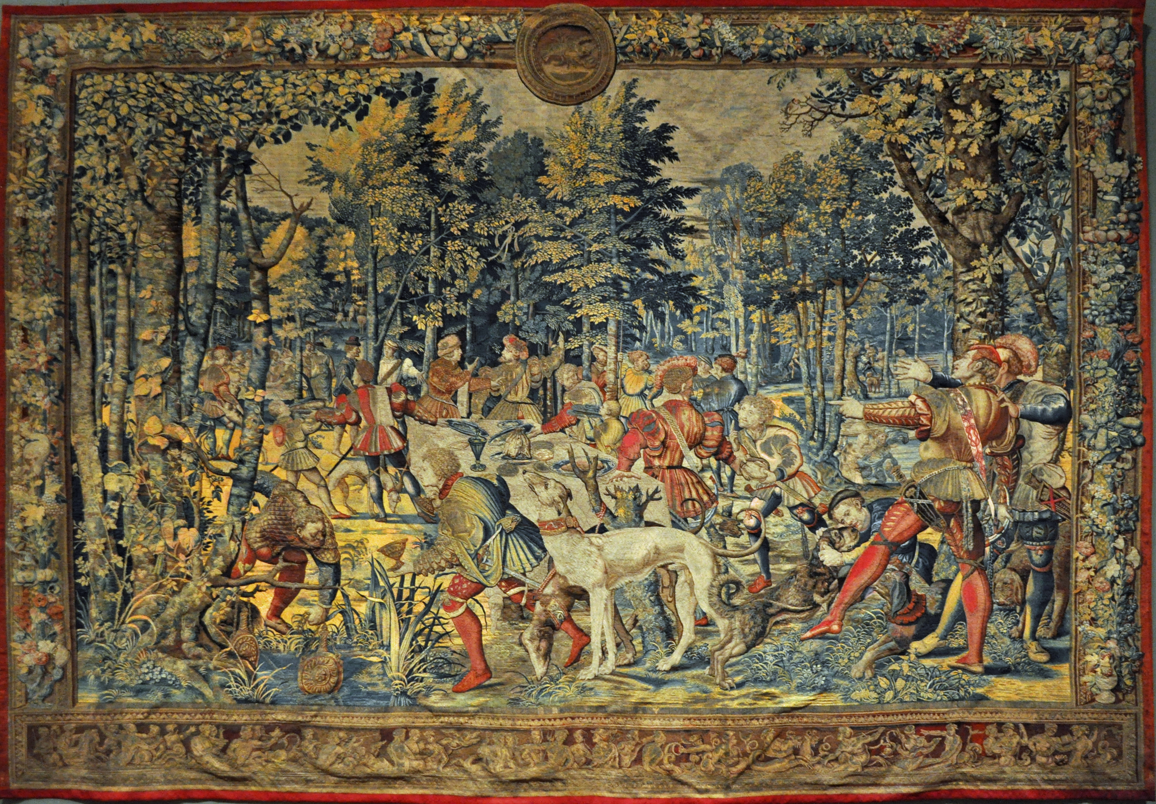 The Month of June, from The Hunt of Maximilian series